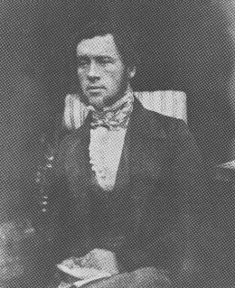 William Robert Grove